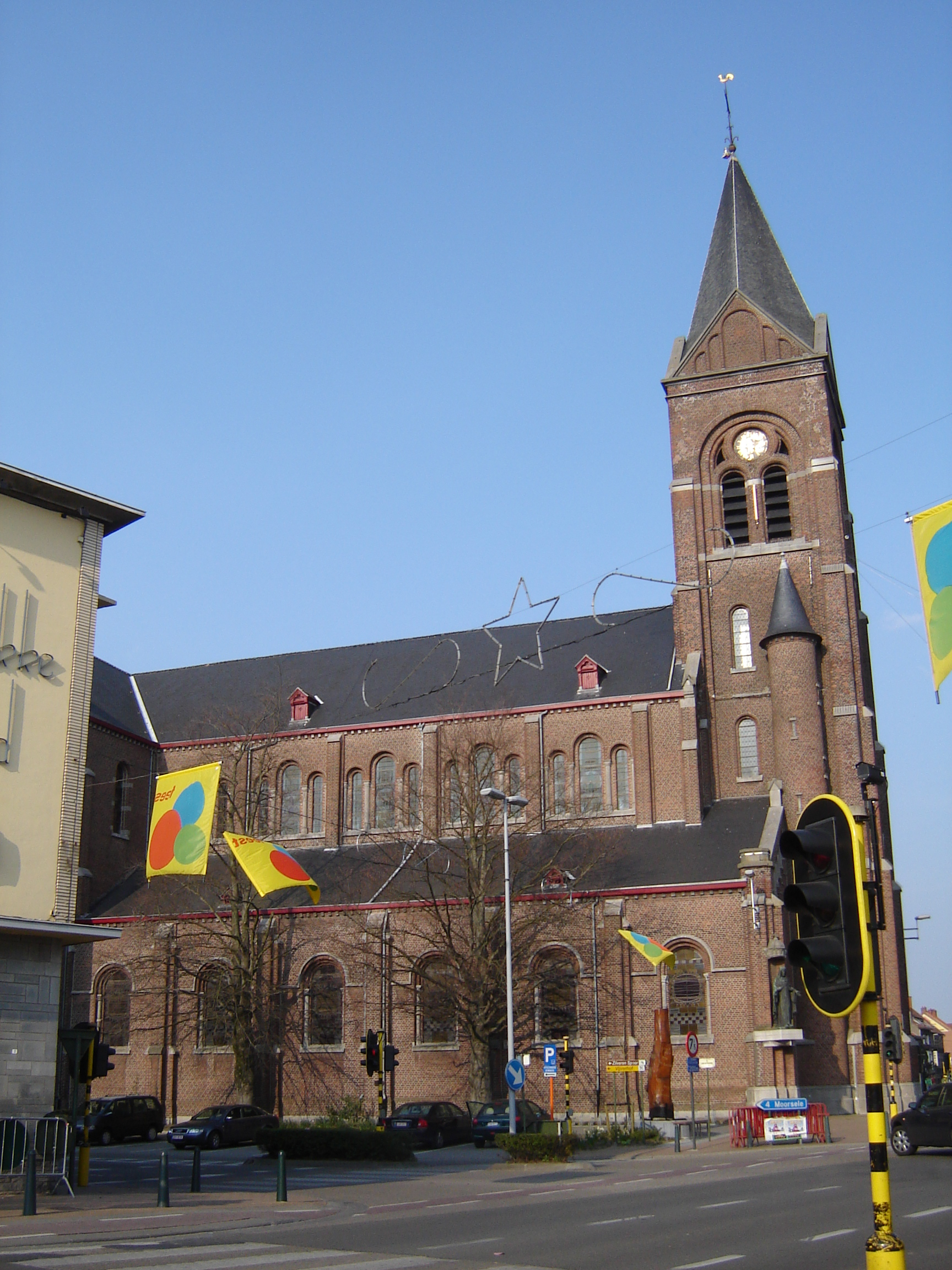 Church of Saint Hilary in centre of Wevelgem. Wevelgem, West-Flanders, Belgium